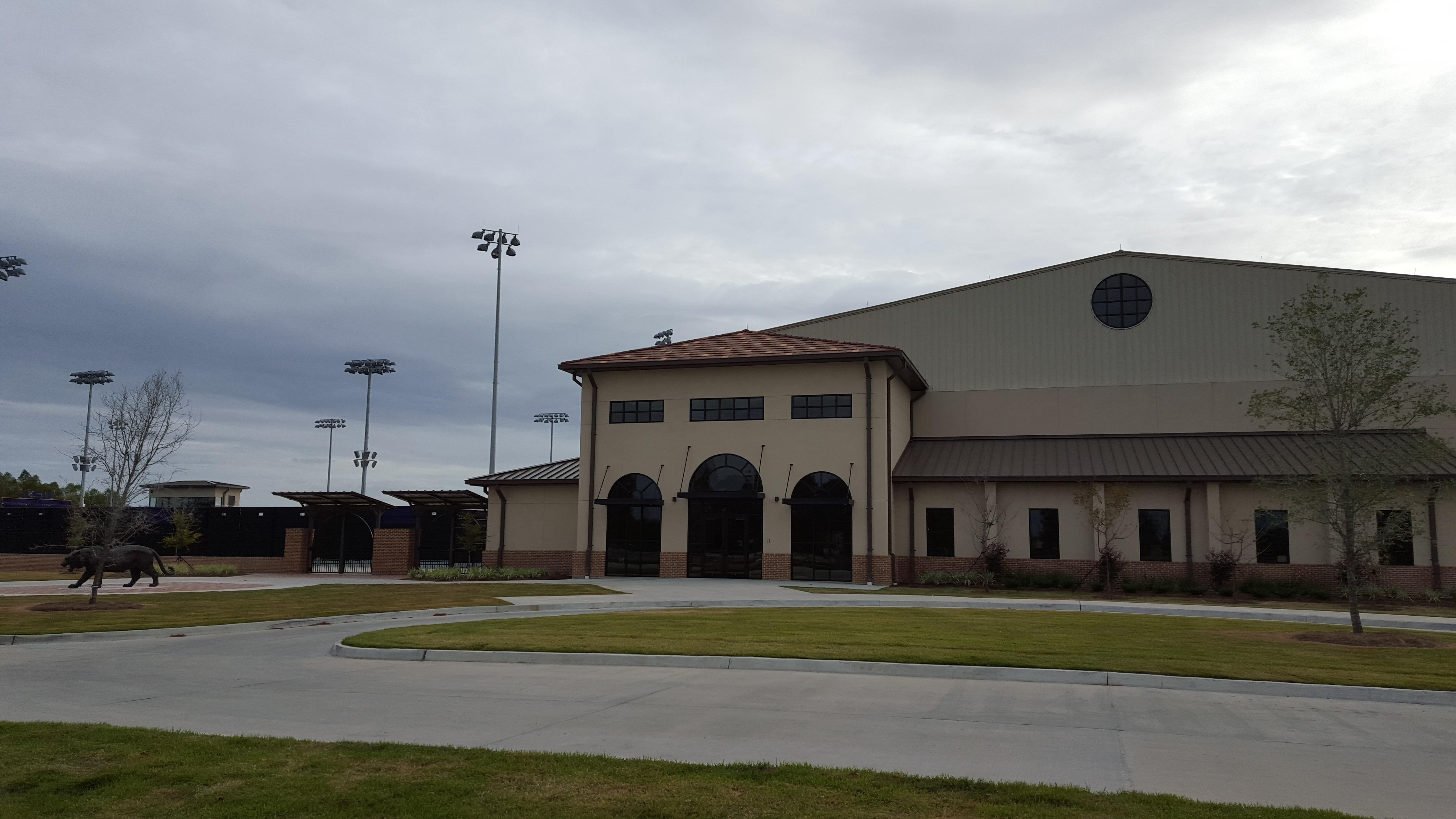 LSU Tennis Complex Building